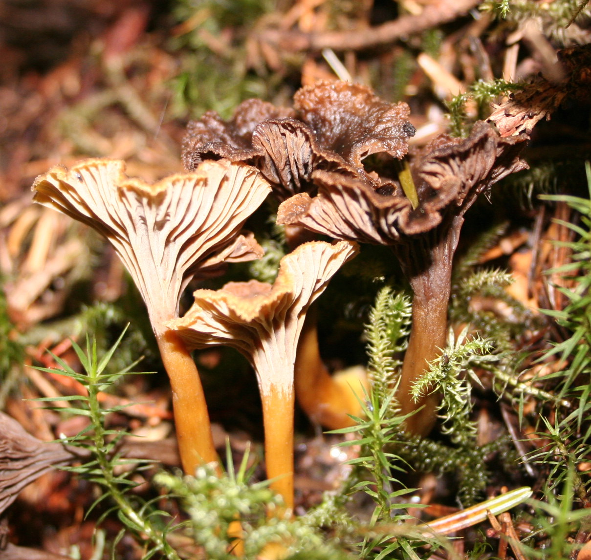 Cantharellus tubaeformis in a French wood in the Vosges.